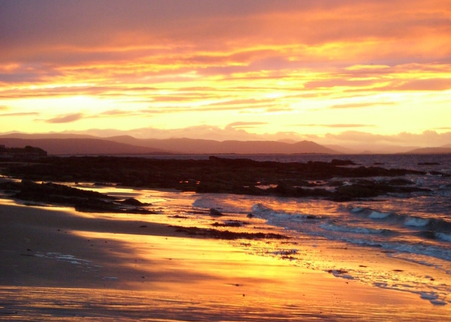 Sunset at the autumnal equinox